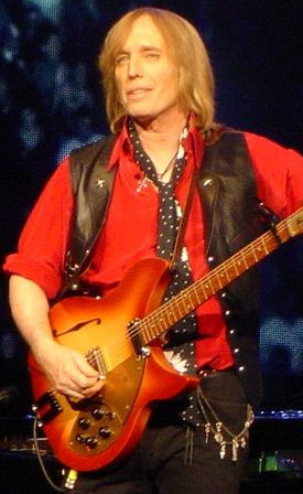 Tom Petty performing at Nissan Pavilion in Bristow, VA - June 10, 2006. Photo taken by Marion S. Rights have been specifically given by the photographer for the images' use on Wikipedia.